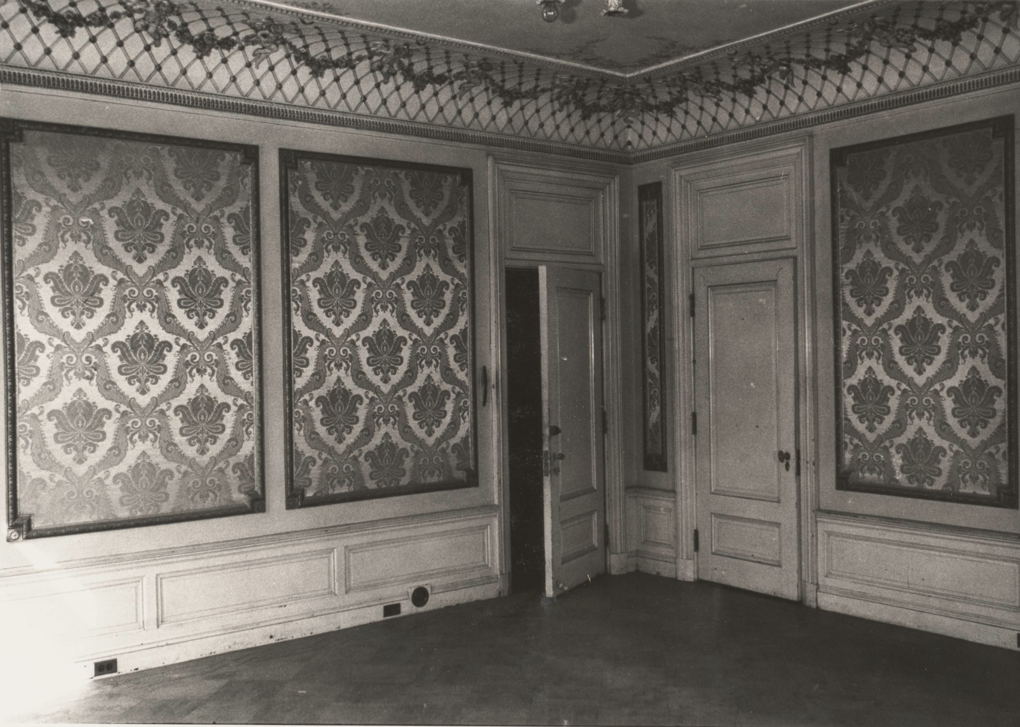 Master bedroom, Marius Dufresne House (Château Dufresne), 4040 Sherbrooke Street East, Montreal, Quebec, Canada.